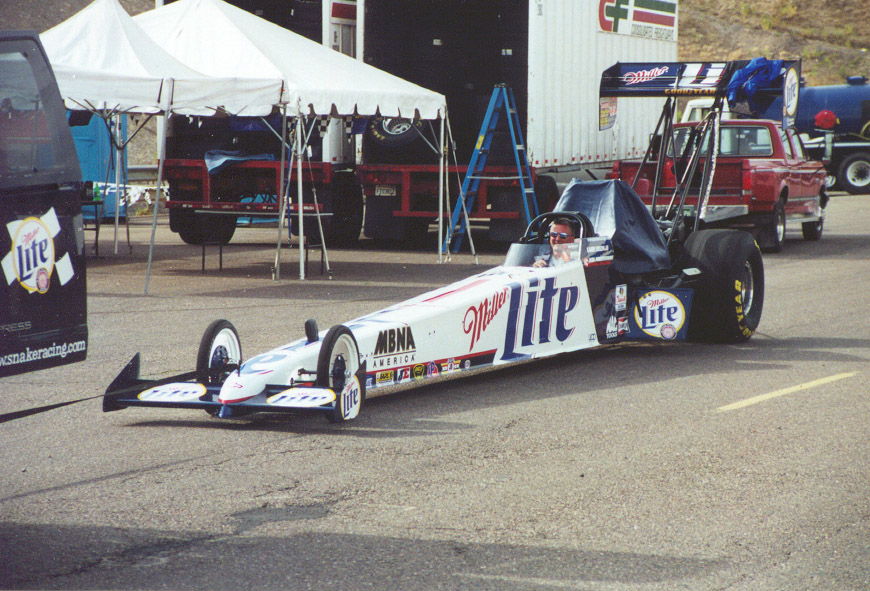 Larry Dixon, Denver 2000 (with a crew member in the car)Larry Dixon